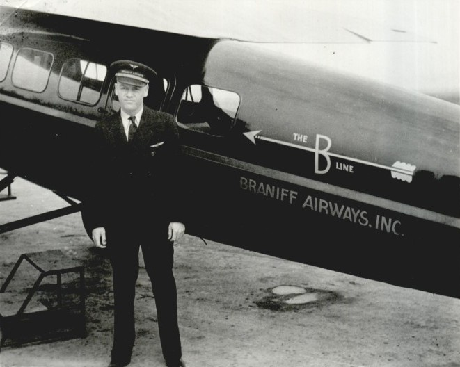 Braniff Airways Captain R. V. Carleton standing next to a Lockheed Vega that he had just been trained to fly for the Oklahoma City based airline. This photo was taken within a few days of hire date of June 1 1931.